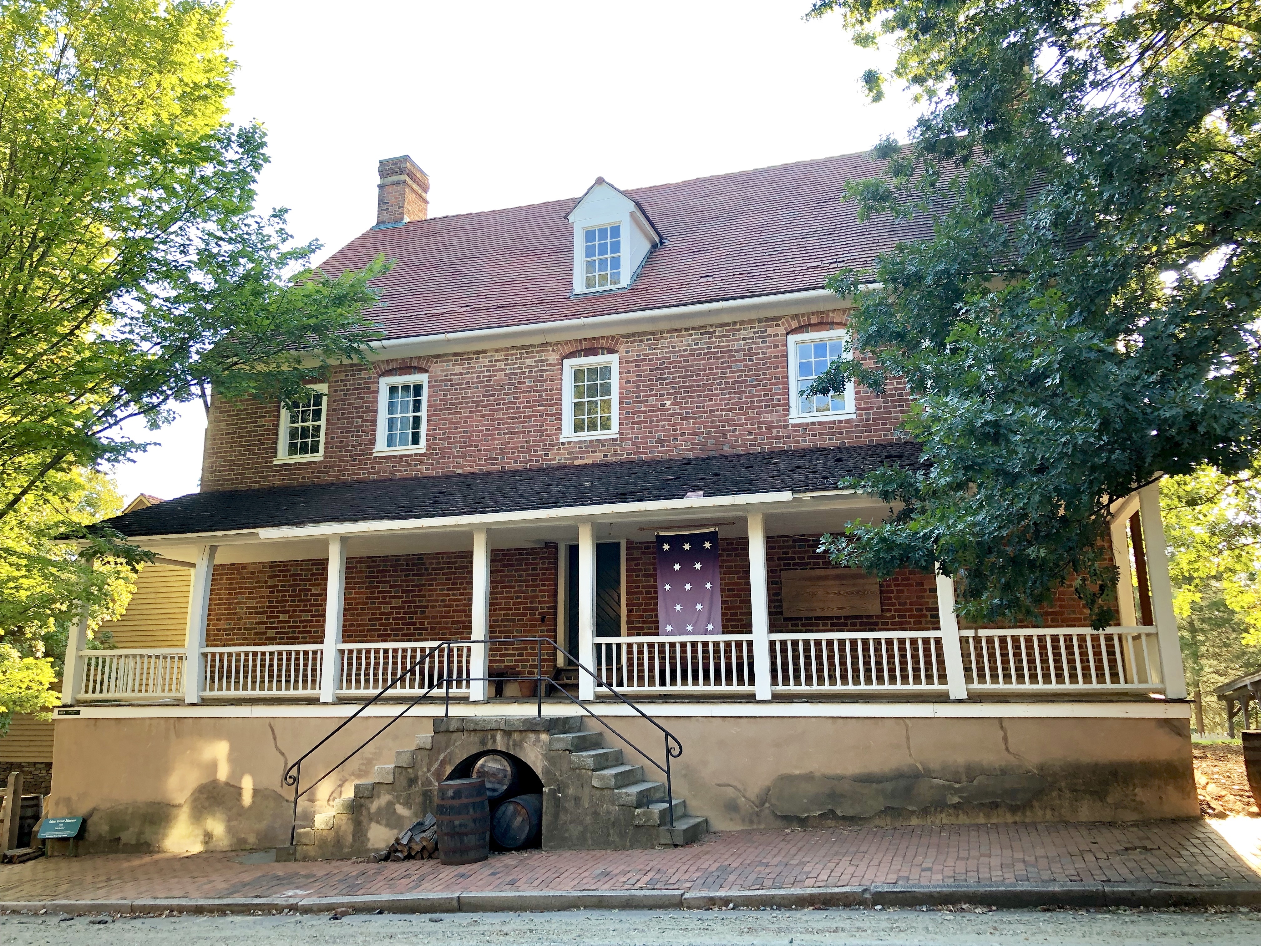 This is the Salem Tavern, located on South Main Street in the Old Salem Historic District in Winston-Salem, North Carolina. Constructed in 1784, the building was where George Washington stayed during his Southern Tour in 1791. It is a contributing building in the Old Salem Historic District, listed on the National Register of Historic Places and as a National Landmark Historic District in 1966.